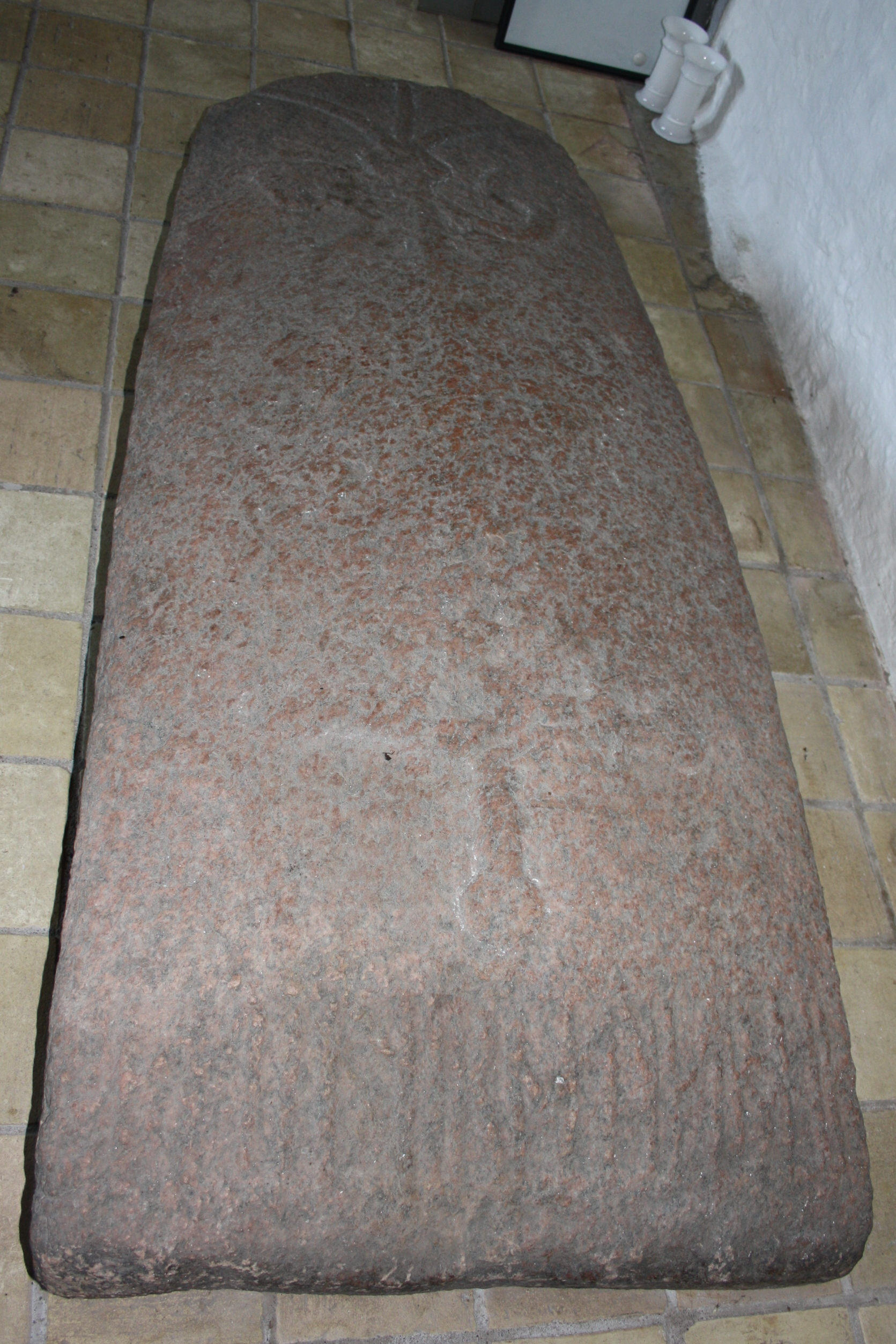 The medieval tombstone of Ketil UrneDansk: Ketil Urnes gravsten